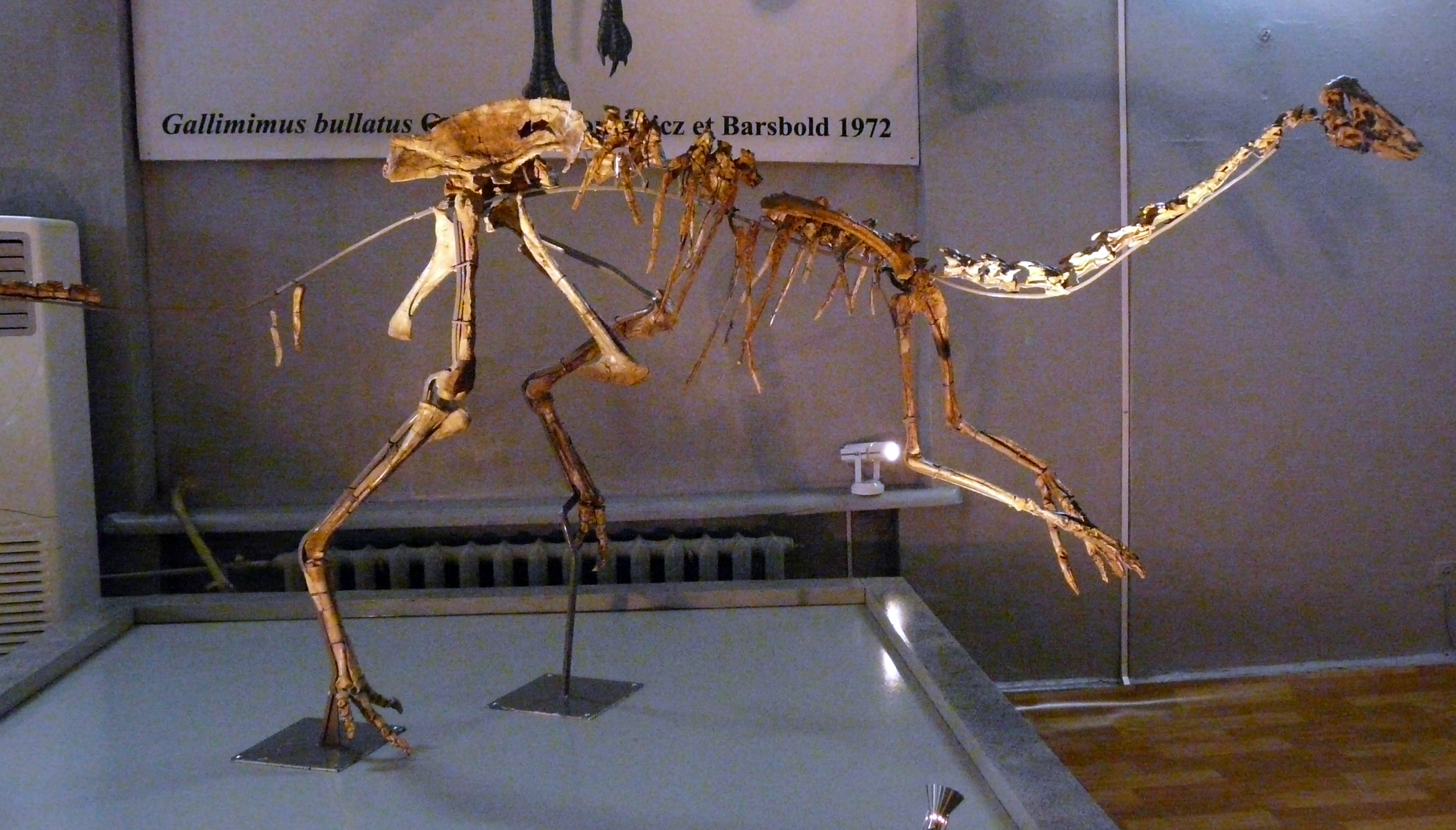 "Gallimimus" mongoliensis in Ulaanbaatar